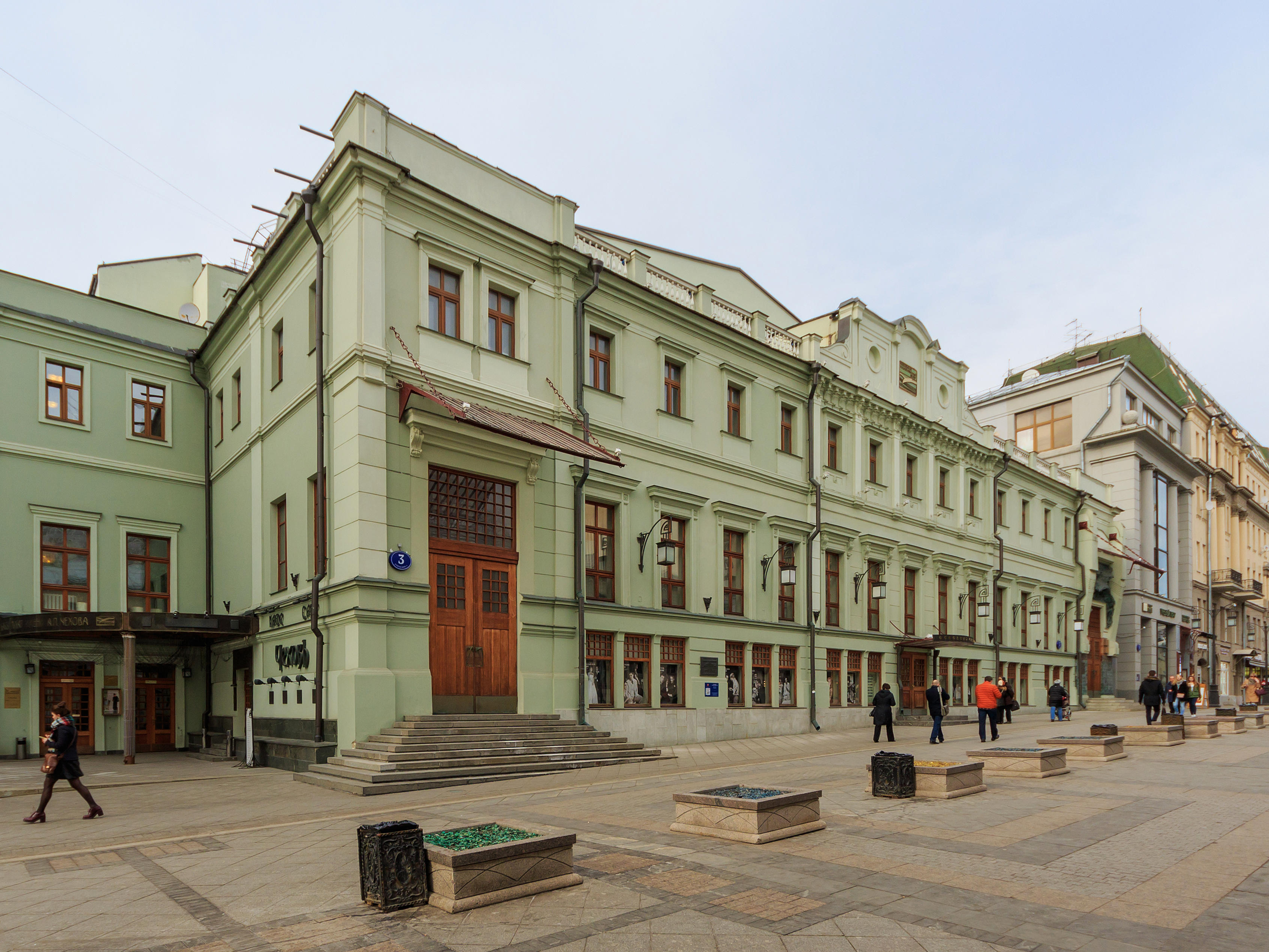 Building of Chekhov Art Theatre. Moscow, Russia.